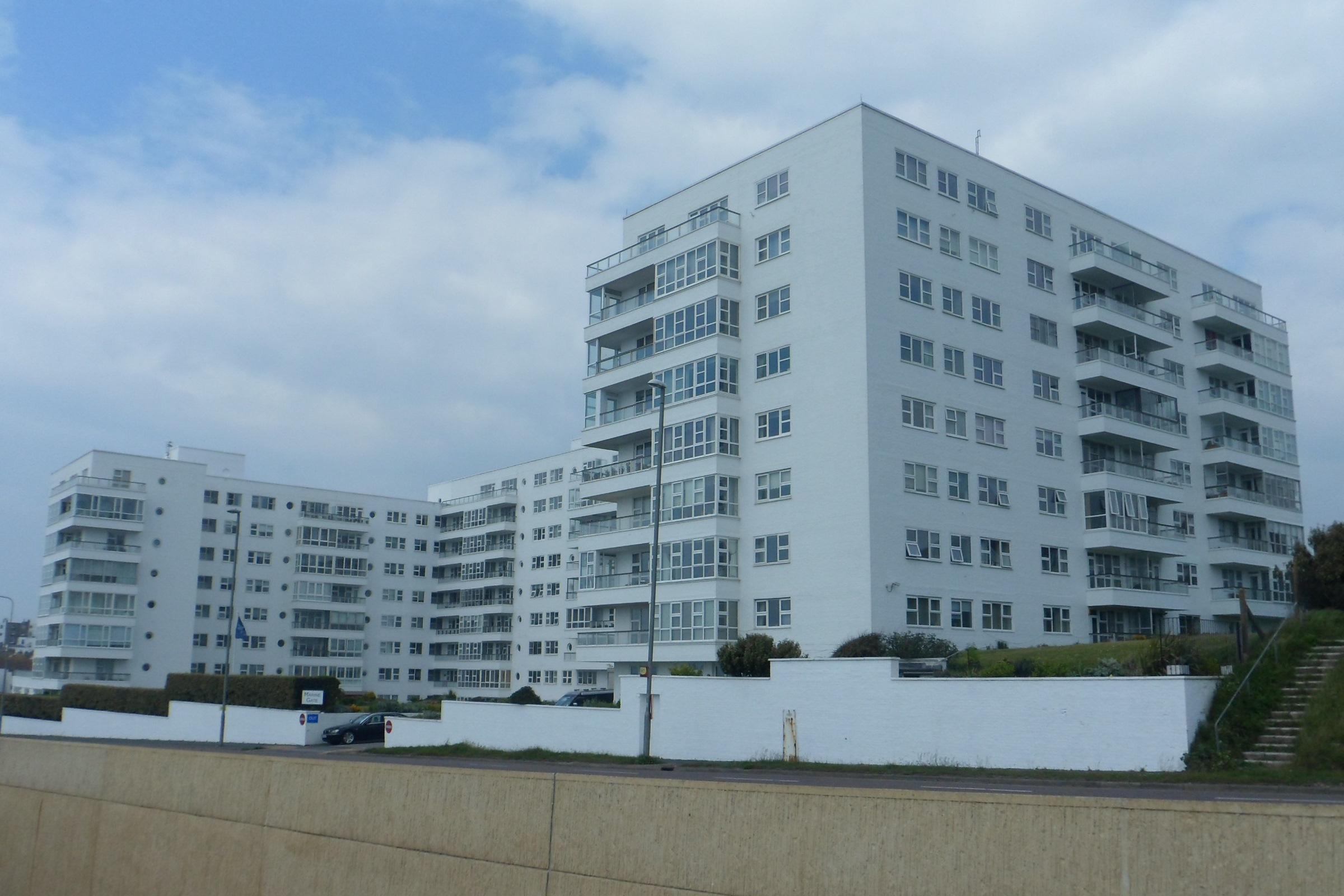 Marine Gate, Marine Parade, Black Rock, City of Brighton and Hove, England. A large block of flats built in 1939 to the design of architects Wimperis, Simpson and Guthrie. It stands at the eastern end of Brighton, overlooking Brighton Marina and Black Rock. This view is taken from the top of the Brighton Marina approach road (whose concrete retaining wall is in the foreground) and looks northwestwards.